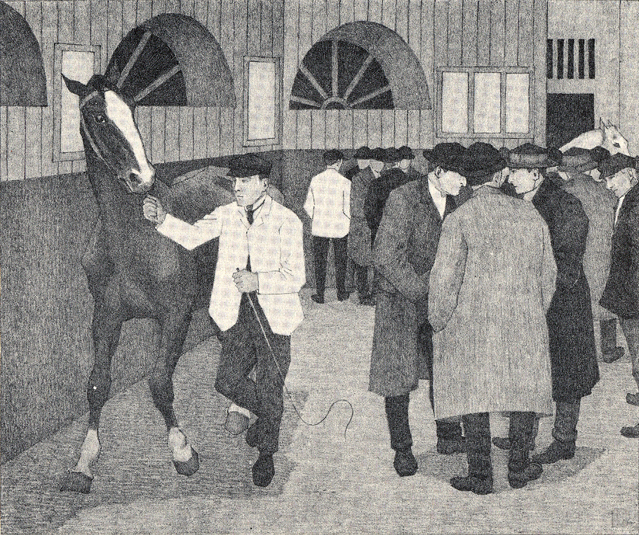 The Horse Mart (Barbican No. 2) Lithograph Licensing Artwork by Robert Bevan (1865-1925).